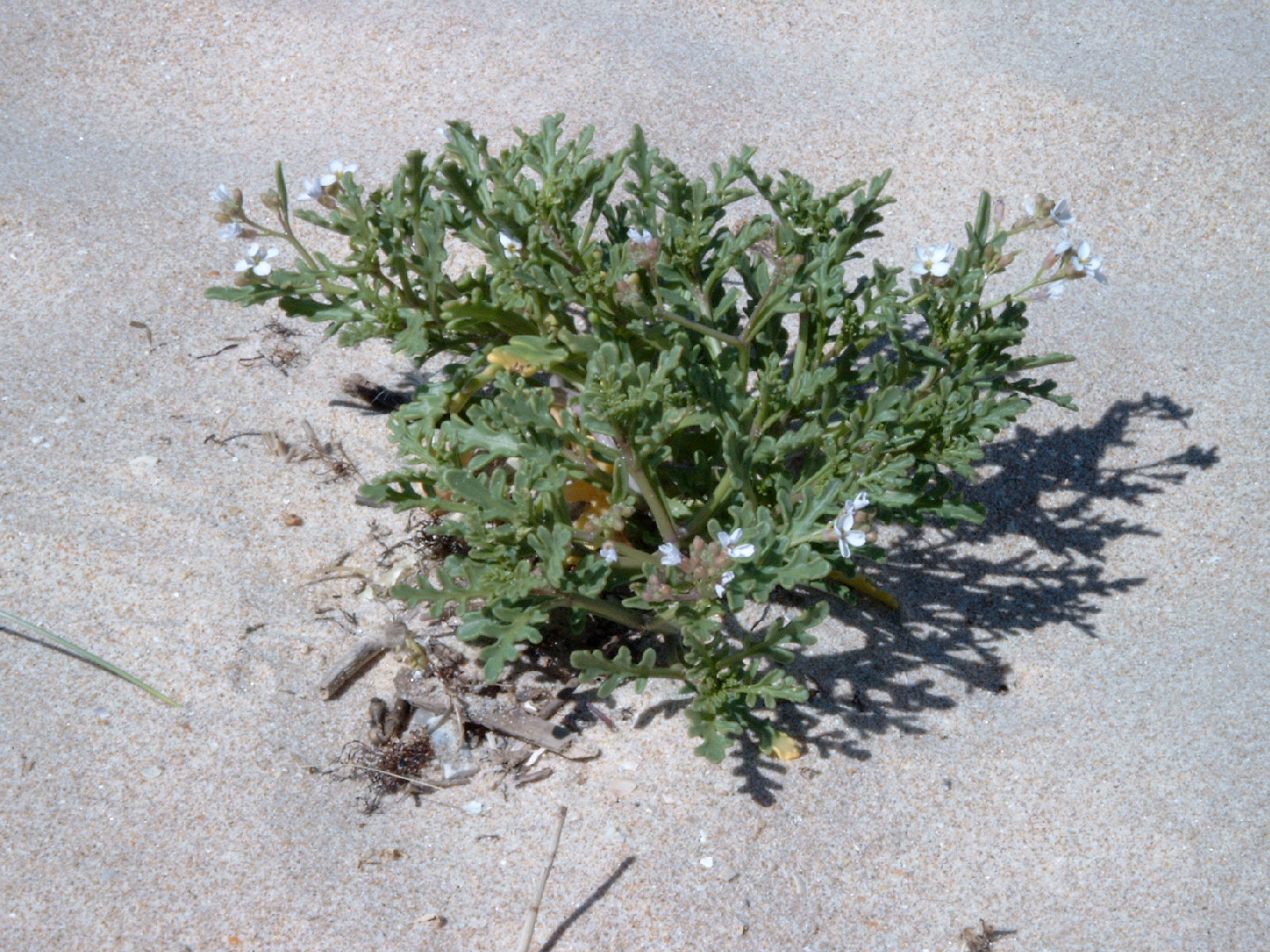 Name Cakile maritima Familiy Brassicaceae